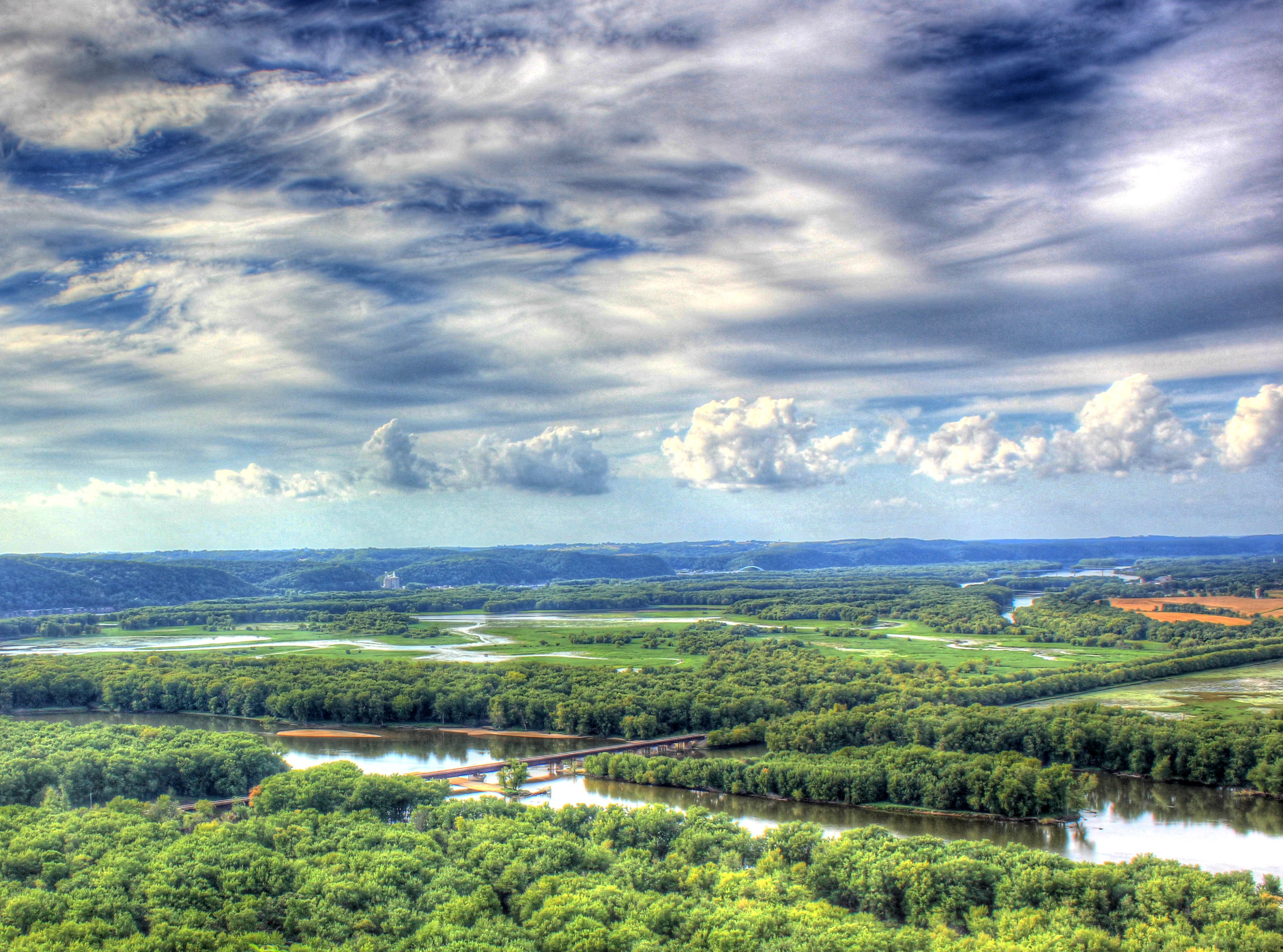 Wyalusing State Park is a 2628 Acre State Park located on the junction of the Wisconsin River and the Mississippi River. The view from the bluff allows you to s Scenic Picture of the River Valley